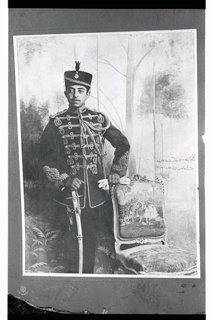 Prince Amanullah Khan, son of King Habibullah Khan of Afghanistan.